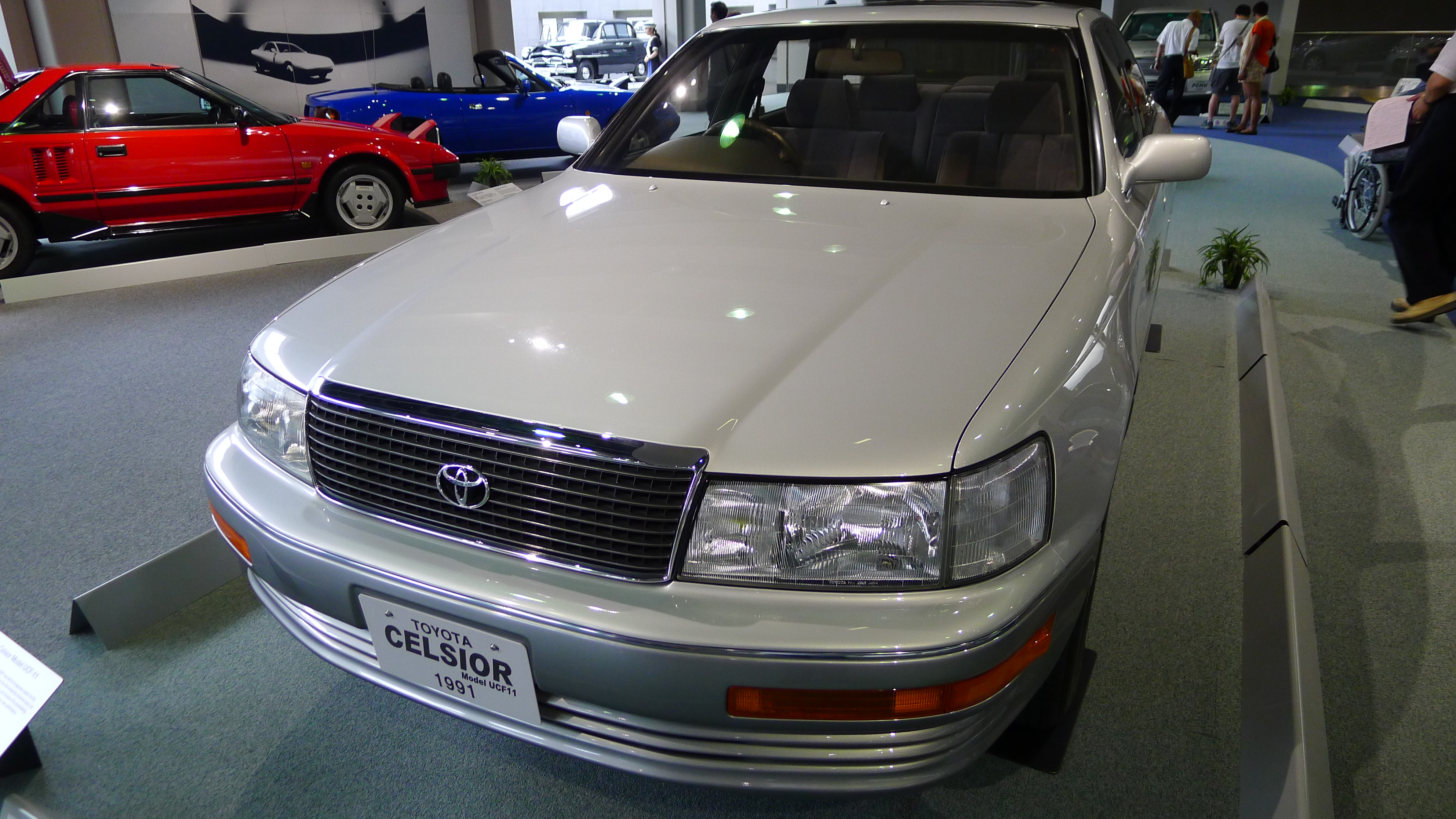 Toyota Celsior (XF10) in Toyota Automobile Museum.